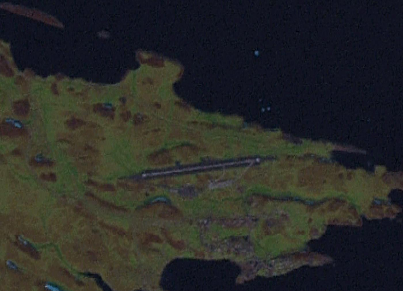 Dikson airfield, former Soviet Union. Image from NASA World Wind.